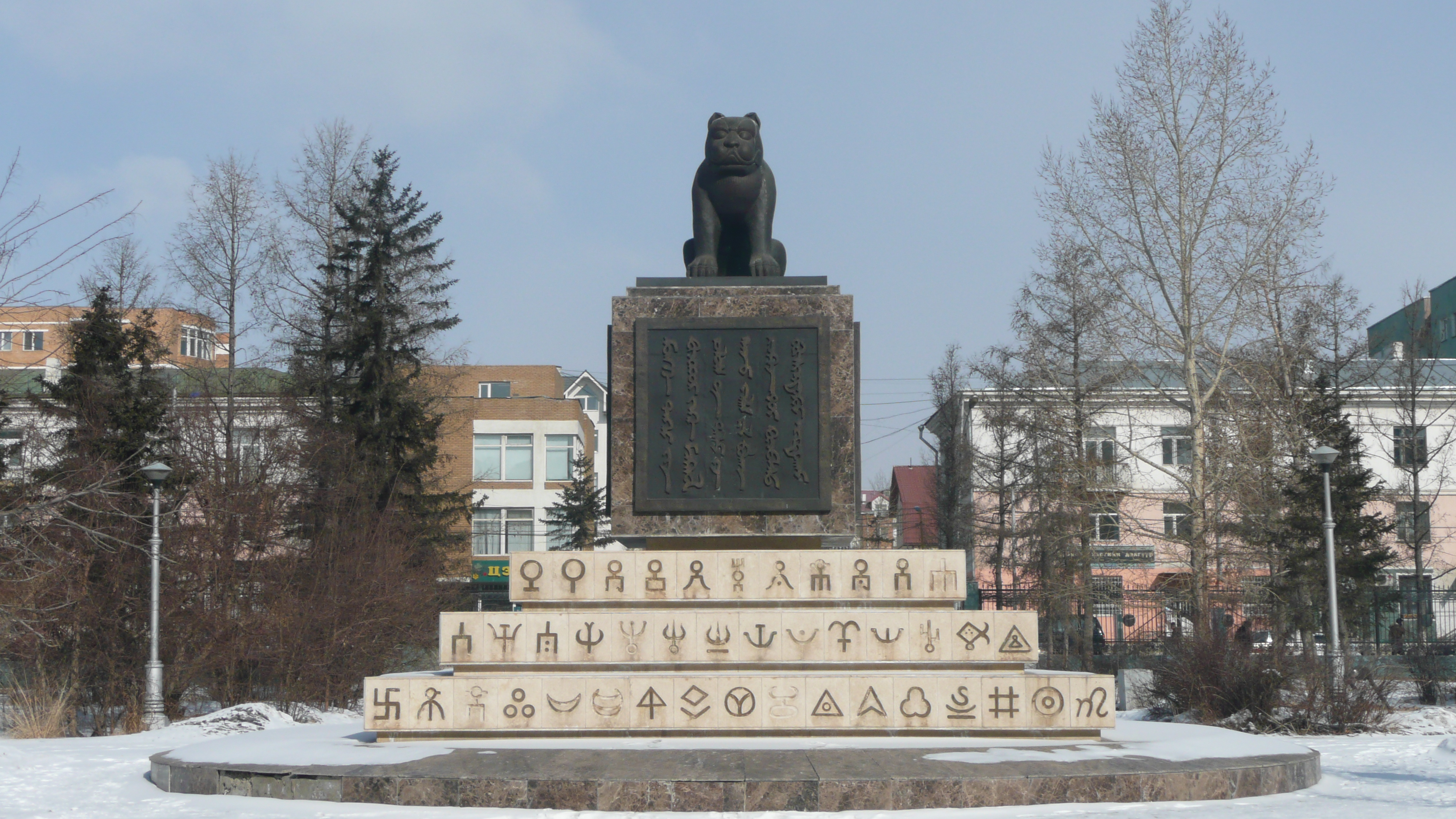 Mongolian State Seal Monument in Ulan Bator